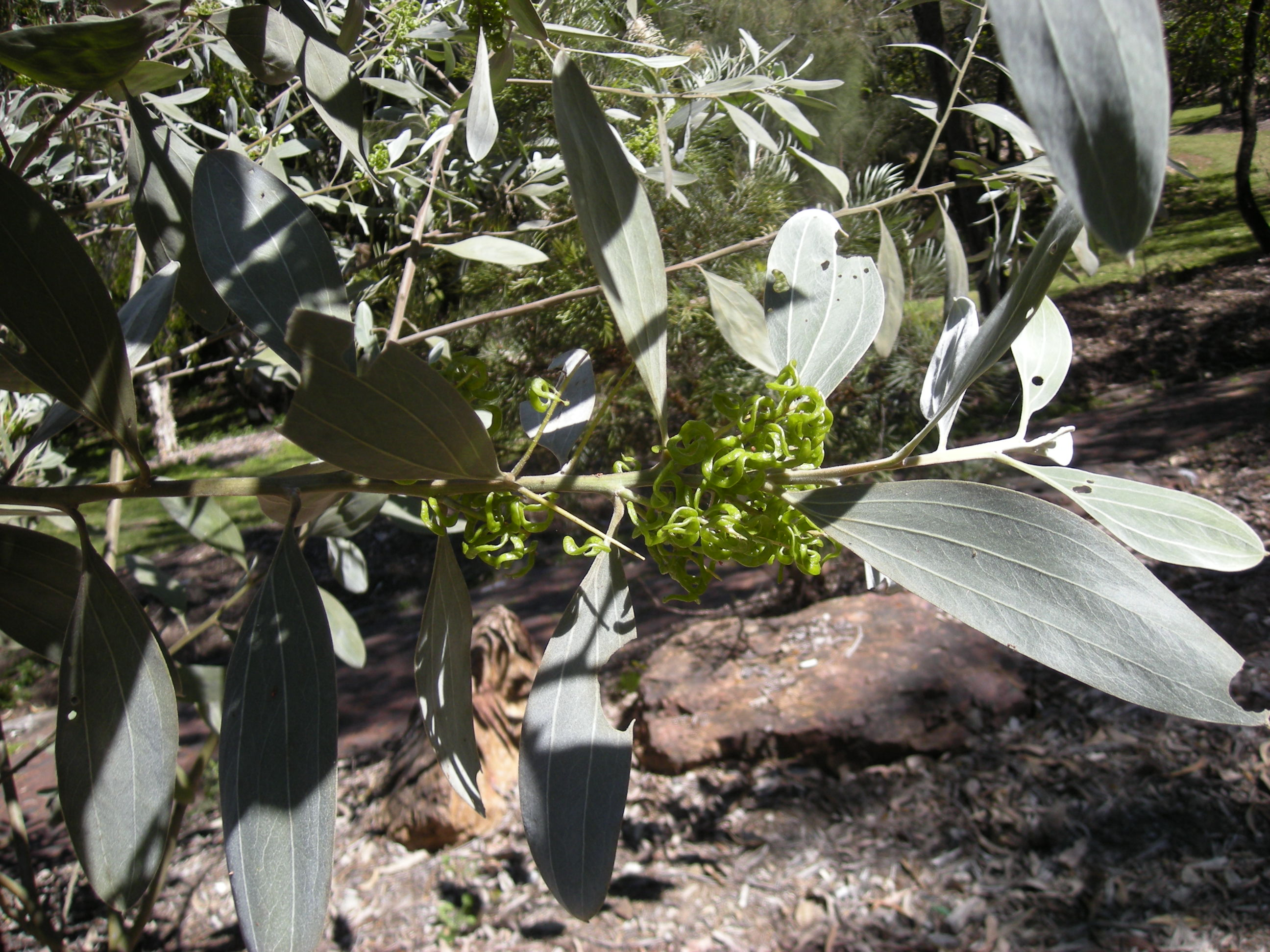 Acacia holosericea foliage and immature_pods